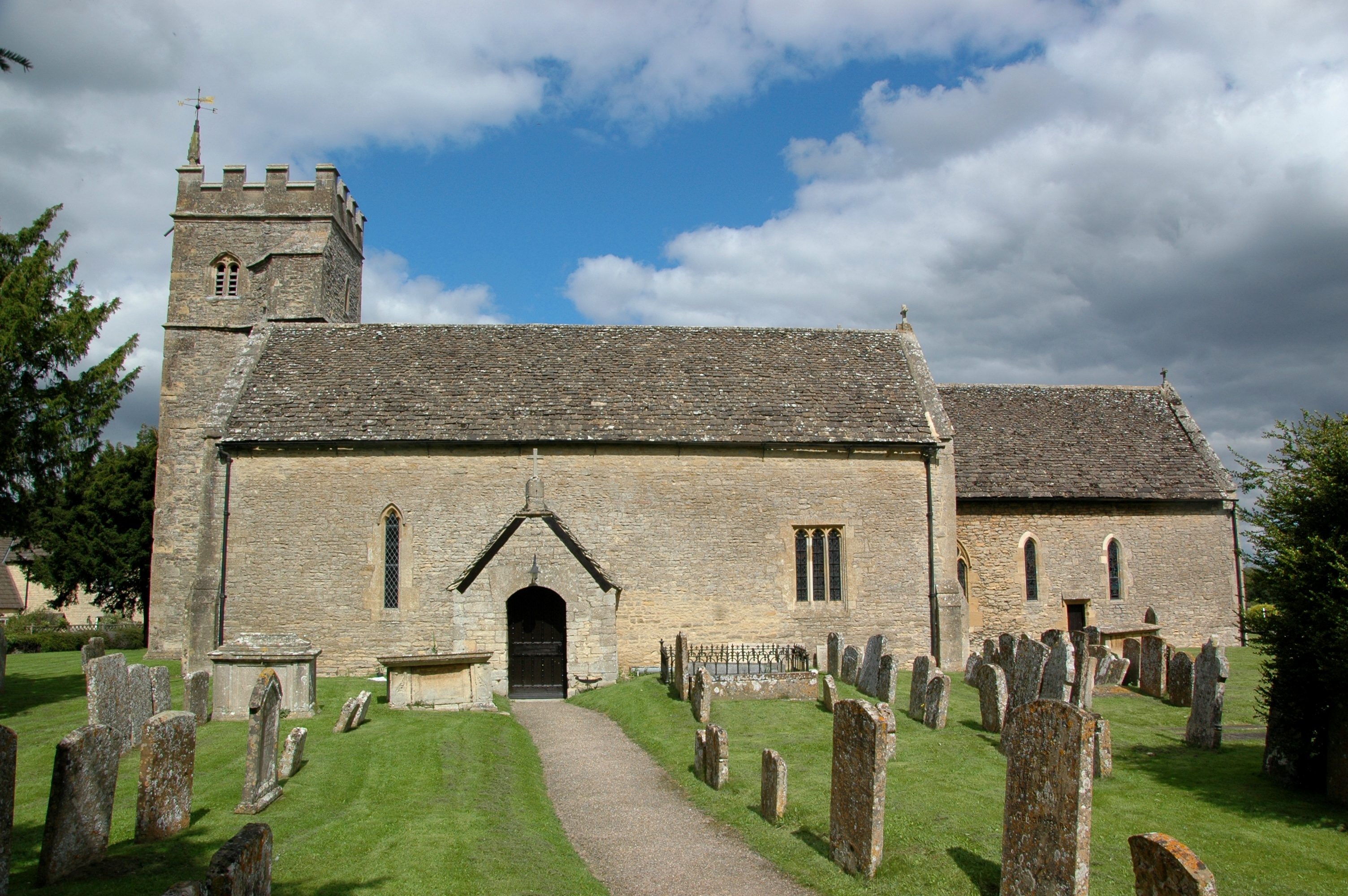 Church of England parish church of St Bartholomew, Ducklington, Oxfordshire: view from the south